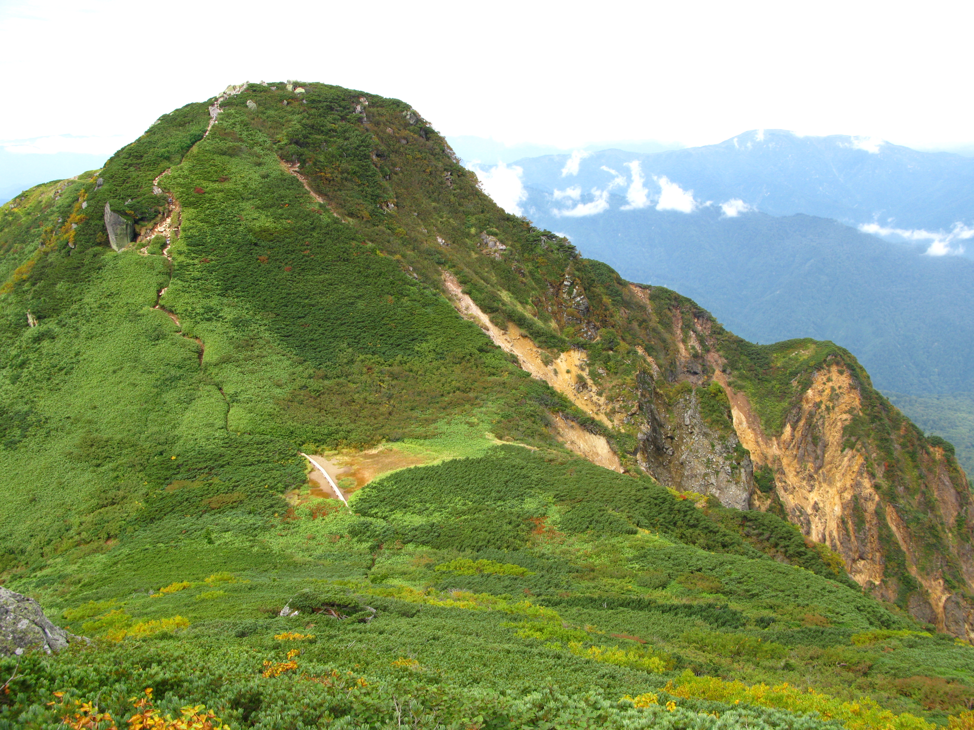 Mount Hiuchi, Fukushima Prefecture, Japan